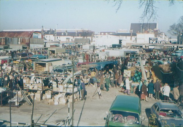 Ashford Market in 1975 This was taken from a bridge that spanned the railway tracks near Victoria Road County Primary School (and was subsequently replaced by an elevated bridge that could span the tracks of the Channel Tunnel railway). The large grey roof is that of The Centrepiece in Bank Street while the buildings beyond the market site are in Godinton Road.